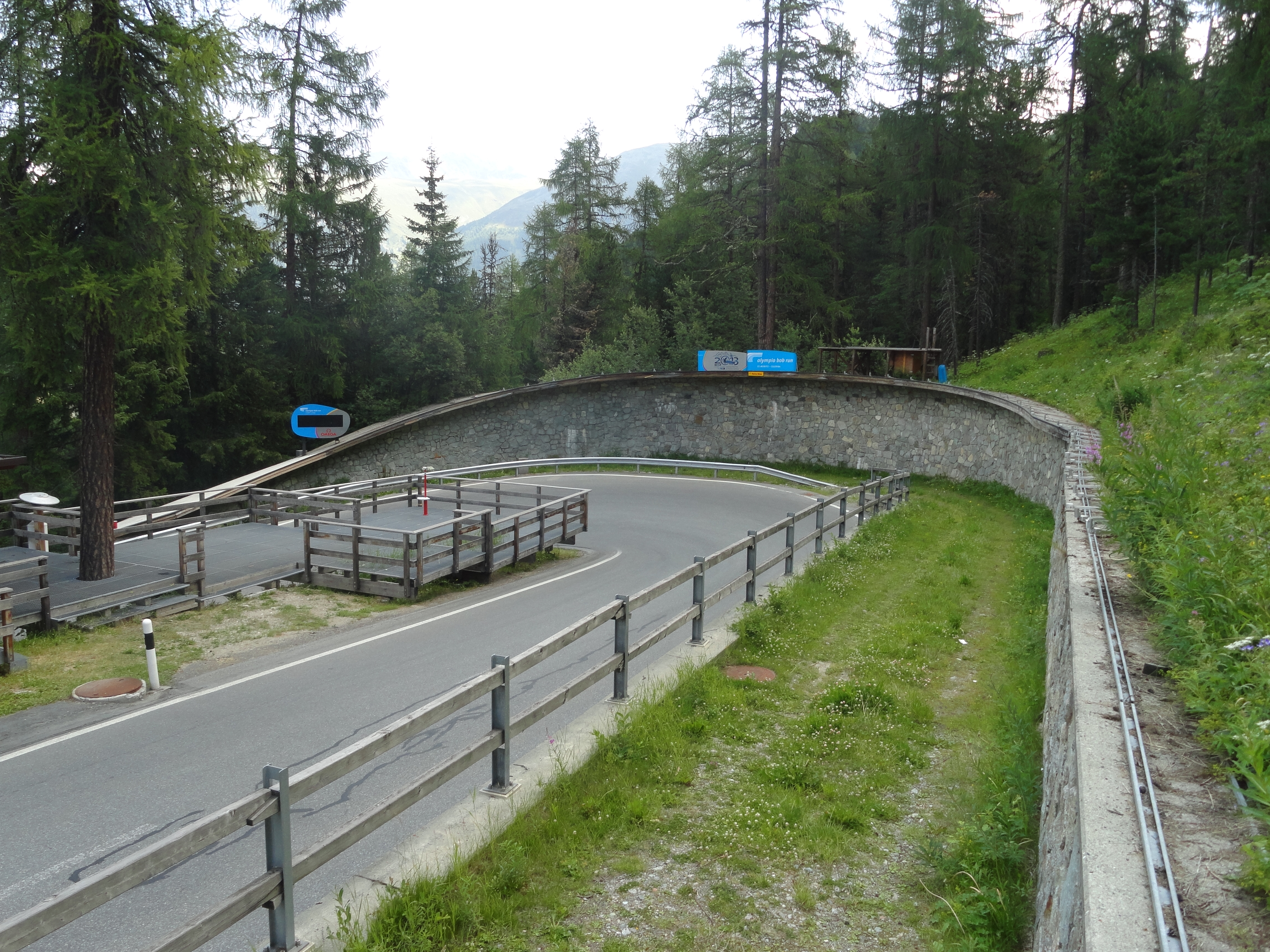 Horse-Shoe Corner Olympia Bobrun St. Moritz–Celerina